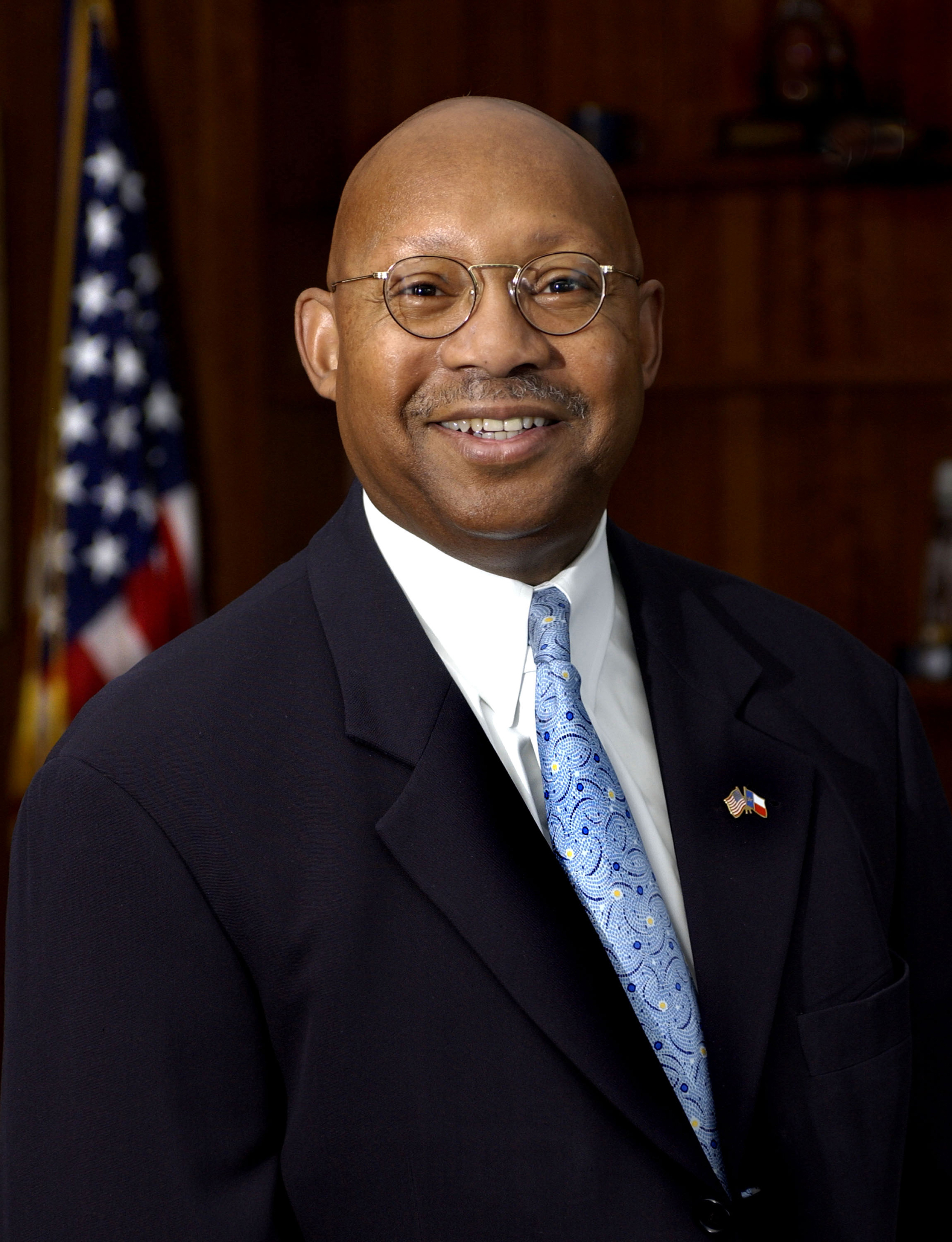 Official portrait of then-Secretary of Housing and Urban Development Alphonso Jackson.